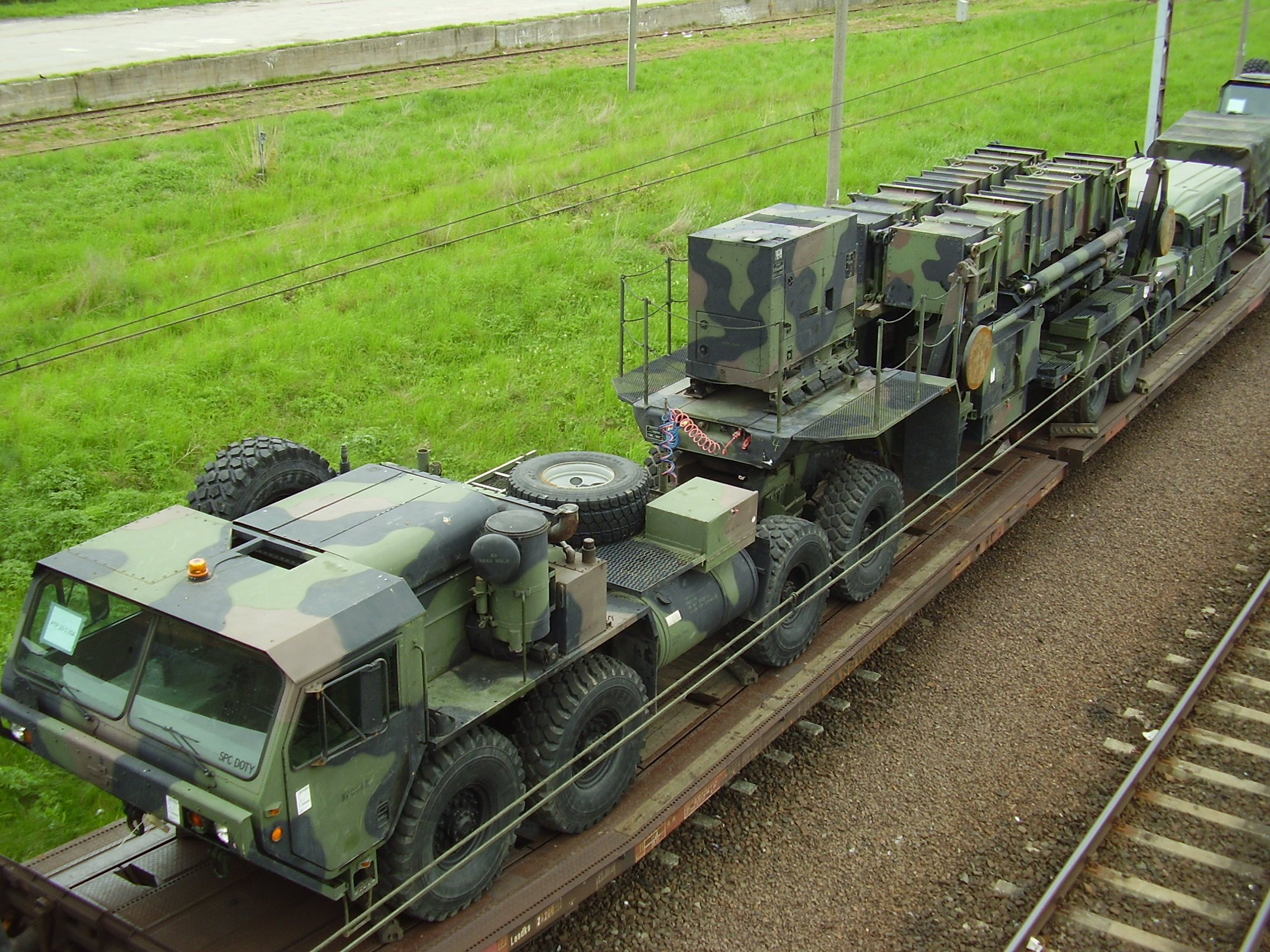 American MIM-104 Patriot 1-7 unit from Kaiserslautern (Germany) in Morąg (Poland)